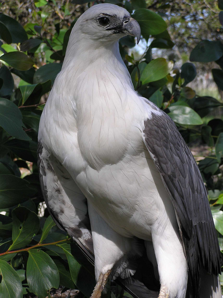 A White-bellied Sea Eagle in Gippsland, Victoria, Australia.